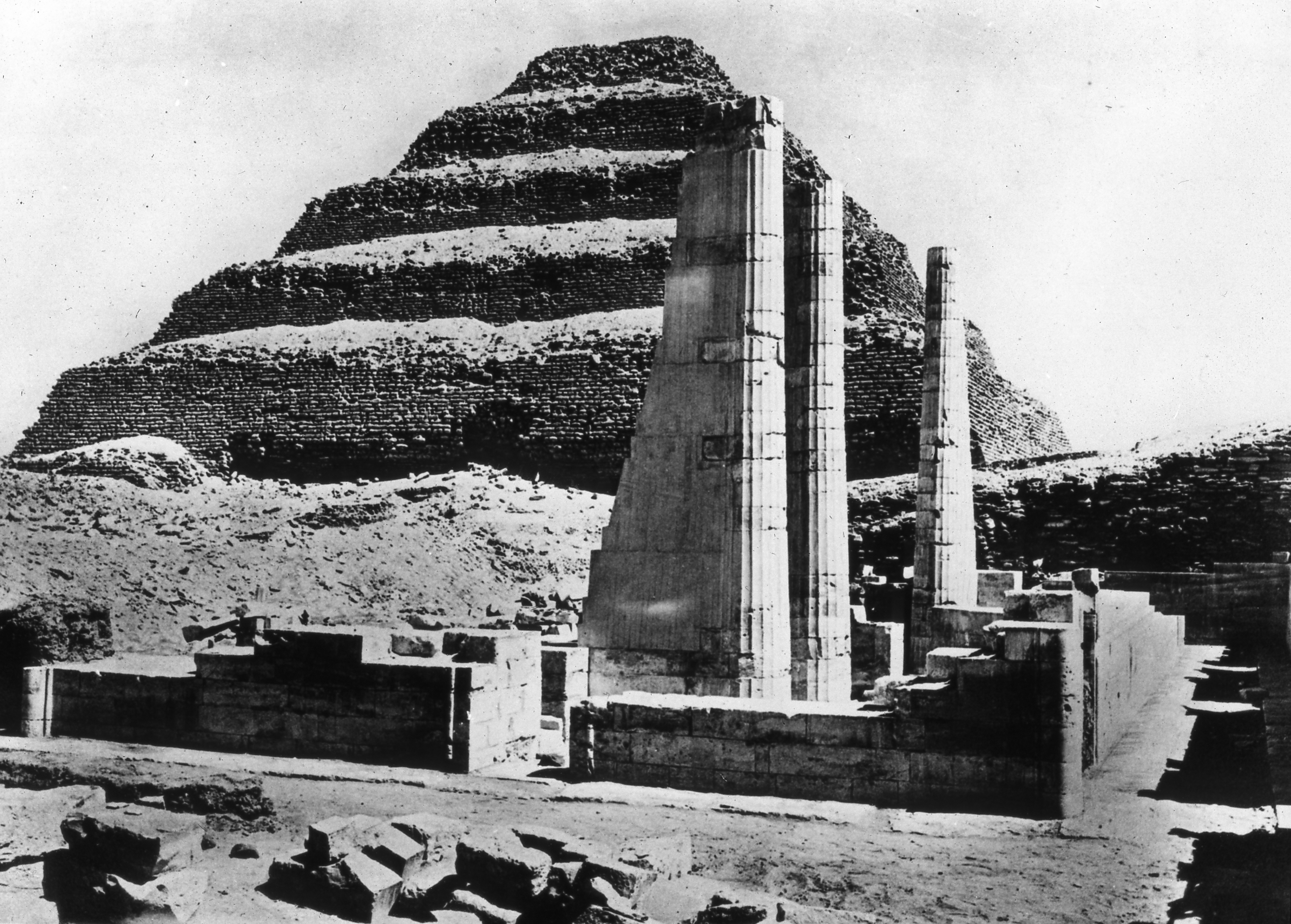 Lantern Slide Collection: Views, Objects: Egypt. Sakkara [selected images]. View 15: Egyptian - Old Kingdom. Step Pyramid and limestone columns, Sakkara, 3rd Dyn., n.d. Brooklyn Museum Archives (S10.08 Sakkara, image 9641).